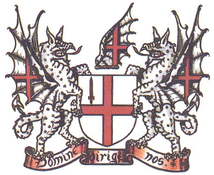 London coats of arms